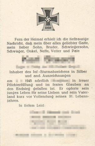 Card announcing the death of a soldier in WW II